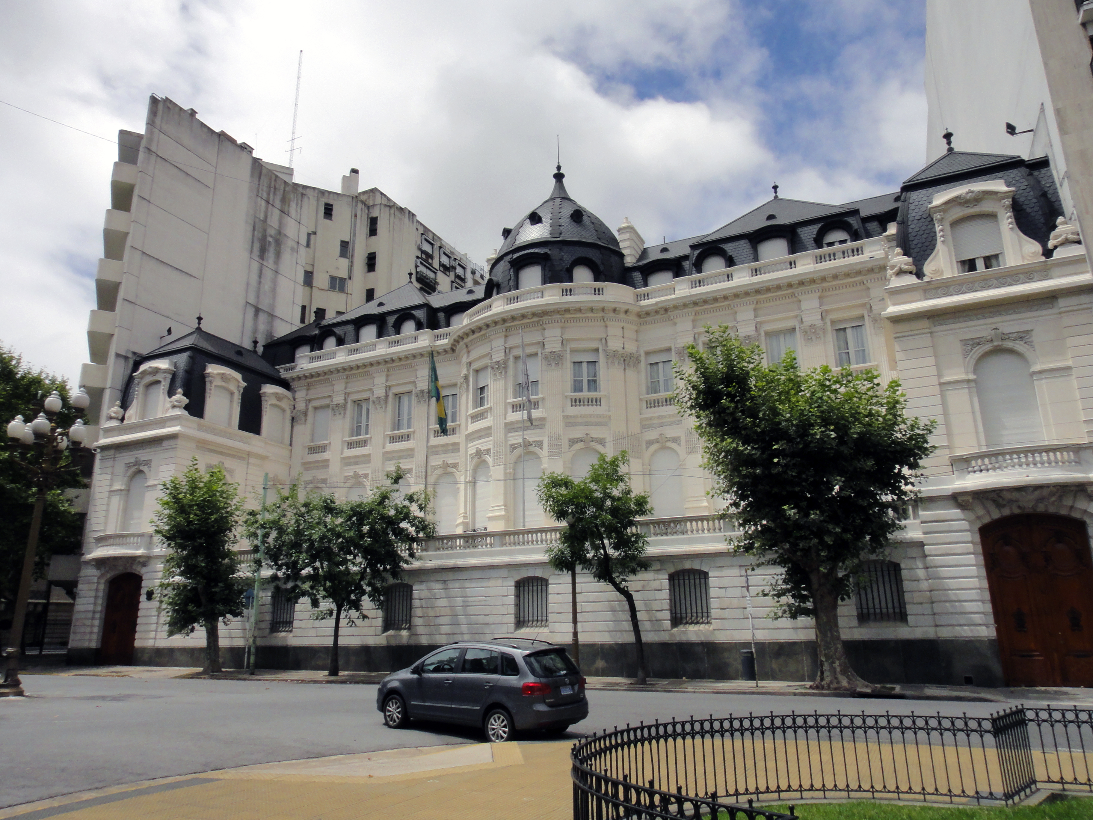 Pereda Palace, seat of the Brazilian Embassy in Buenos Aires, Argentina